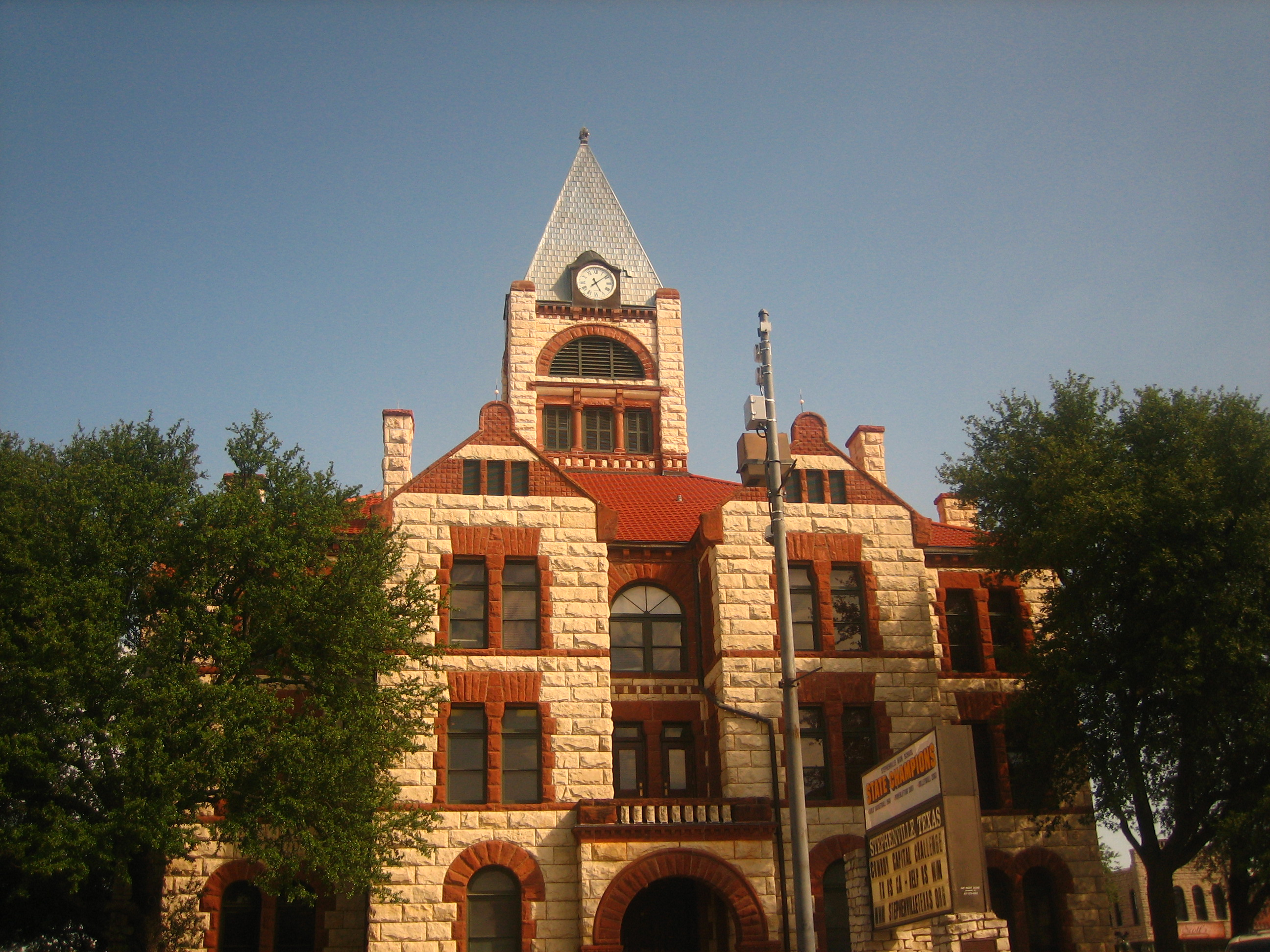 I took photo in July 2008.Billy Hathorn (talk) 01:19, 5 July 2009 (UTC). Recorded Texas Historic Landmark - 1963